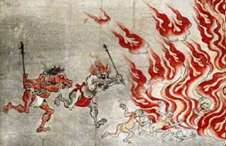 Horse-Face, guardians of the Underworld in Chinese mythology.Painted in Hell Scroll.